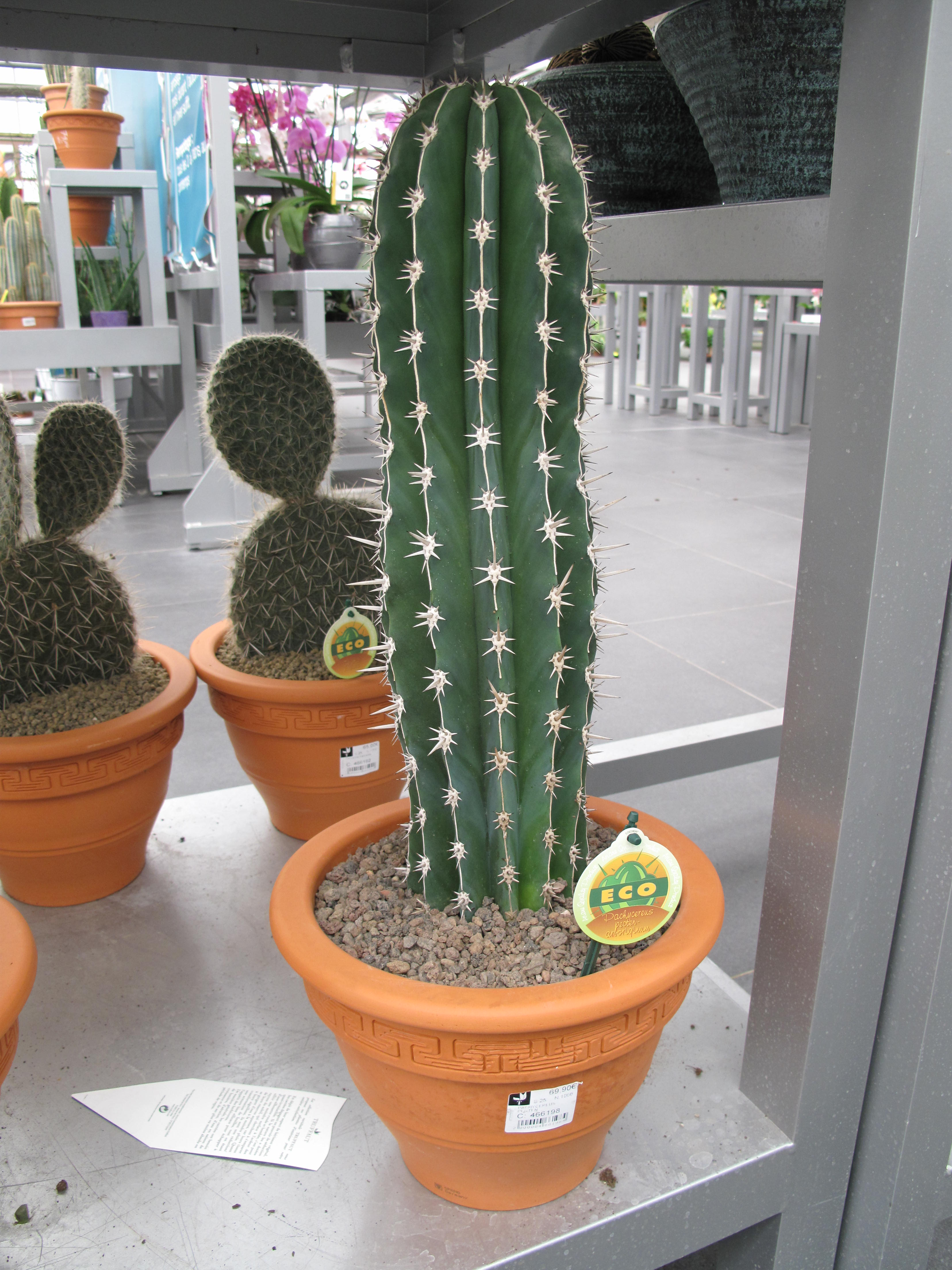 Pachycereus pecten in a garden centre. Identified by its commercial botanic label.